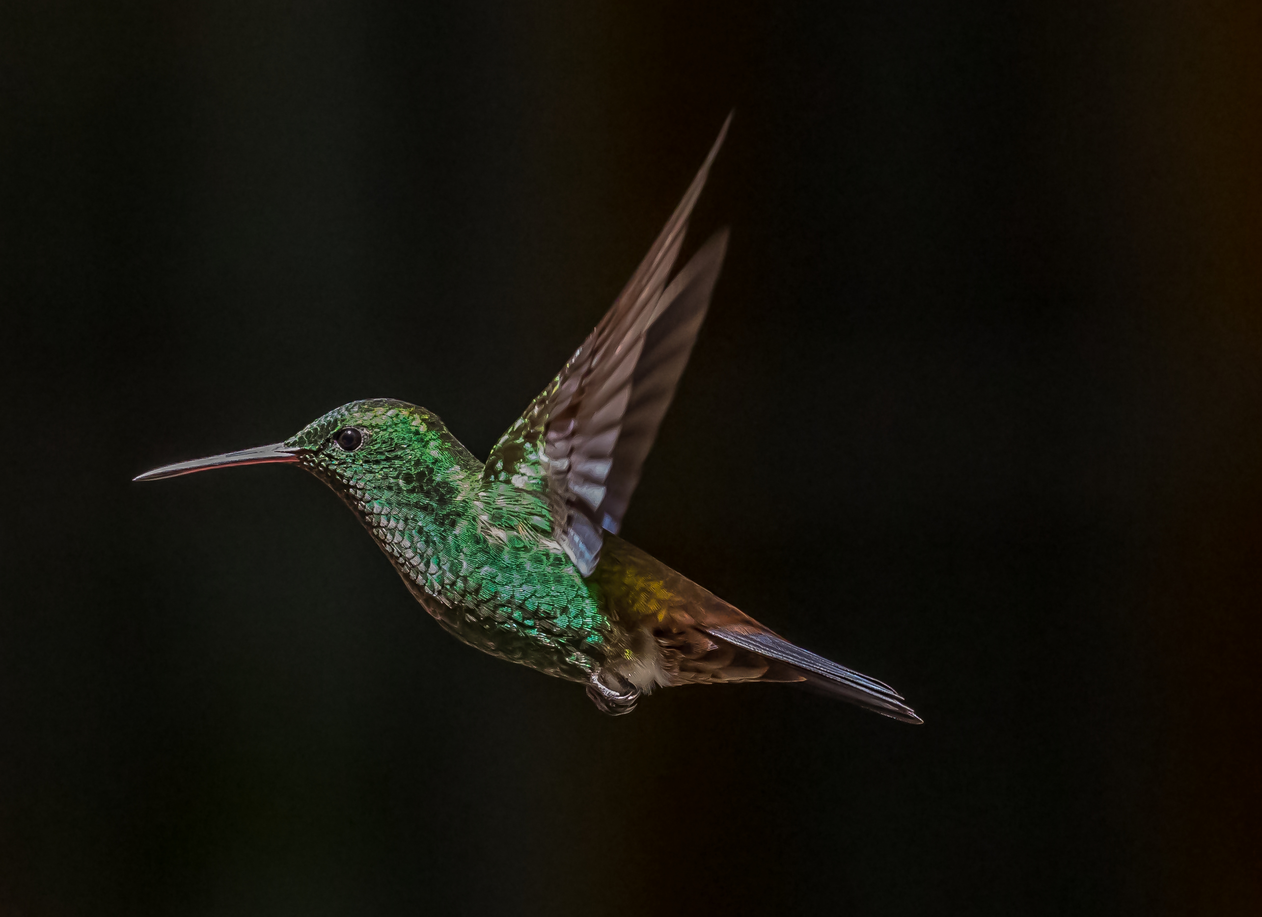 Copper rump hummingbird, Tobago. copyright Steve Laycock